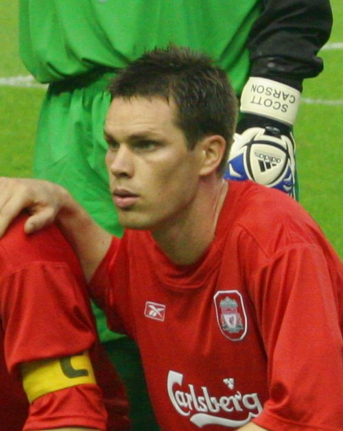 A photo of Steve Finnan. Taken by my friend Phillip Chambers. Edited by me, Alistair Hart. Note: The original larger image is licensed differently. This version of the image is re-licensed here for free use. Note 2: I overwrote a previous image with the name Finnan.jpg. It was from , and was in violation of copyright. The above copyvio box refers to that image. I will leave it for an admin to remove. Sorry for any confusion caused, next time I'll just choose a different filename, cheers aLii 16:48, 16 August 2006 (UTC) Note 3: I had added the copyvio tag, but I have removed it, and made a note in Wikipedia:Copyright problems/2006 August 16/Images. Ytny 02:48, 17 August 2006 (UTC)